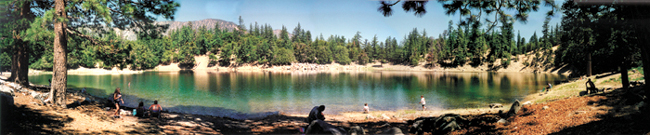 Photo taken by this author Mike Manning July 4, 1998. Seven panorama shots from a Canon AE. Scanned and assembled in Adobe Photoshop.